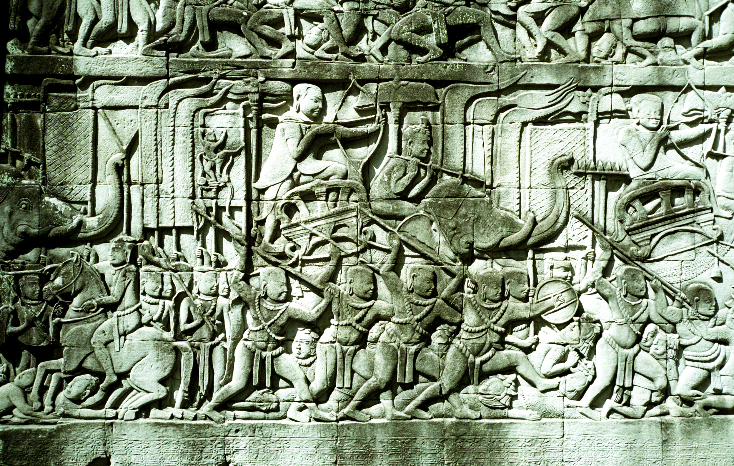 Angkor Thom bas relief